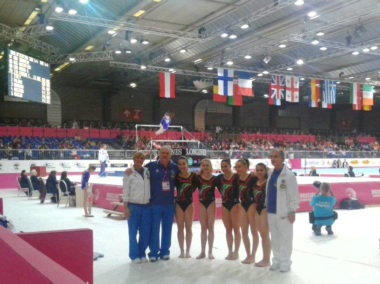 The italian national team at the 2012 European Women's Artistic Gymnastics Championships. Carlotta Ferlito, Francesca Deagostini, Erika Fasana, Giorgia Campana, Vanessa Ferrari.